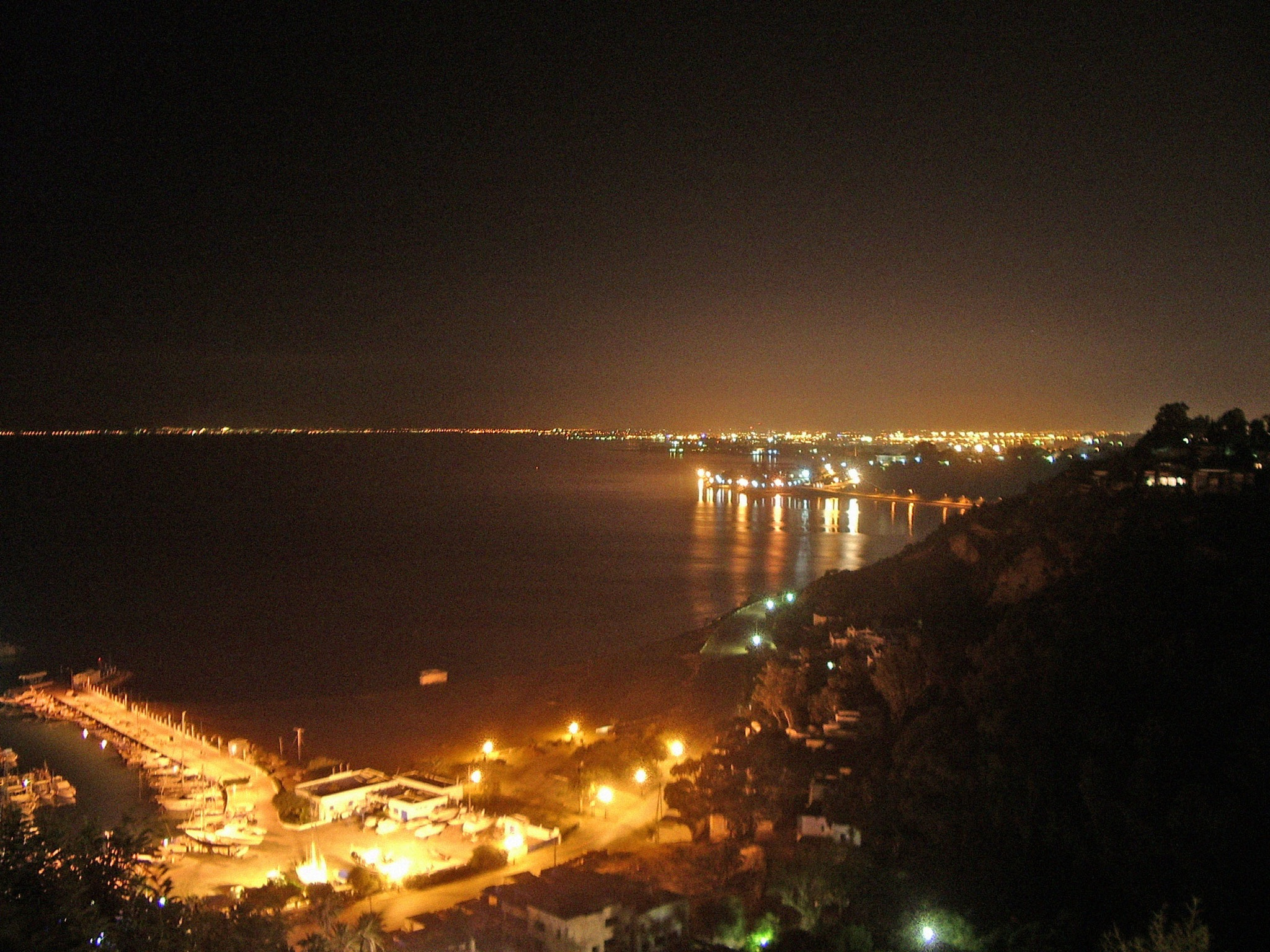 Gulf of Tunis by night, Tunisia.